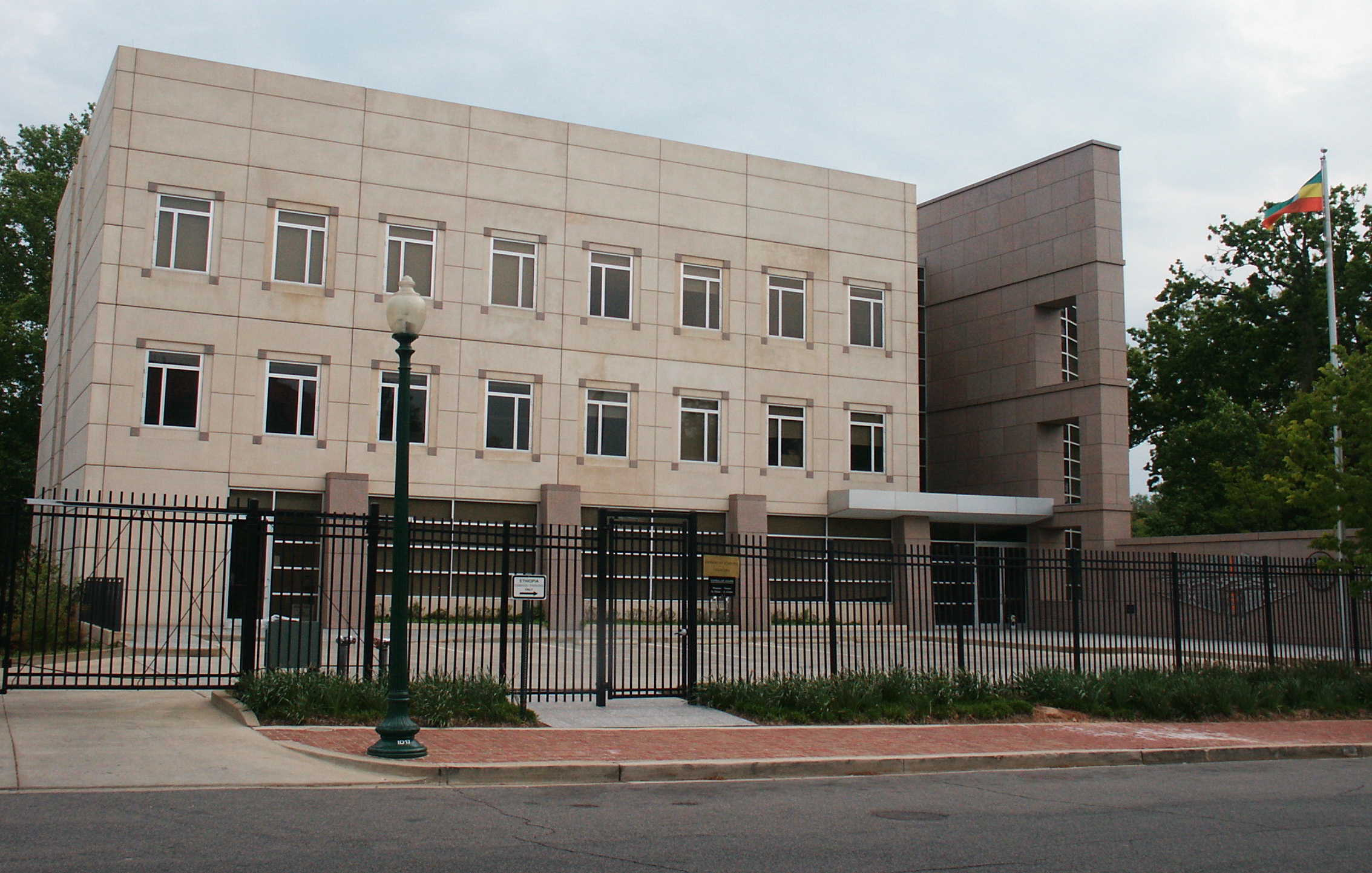 Embassy of the Federal Democratic Republic of Ethiopia in the United States, located at 3506 International Drive NW in Washington, D.C. Please see this image's talk page for more details about this photograph (e.g. why it looks the way that it does).